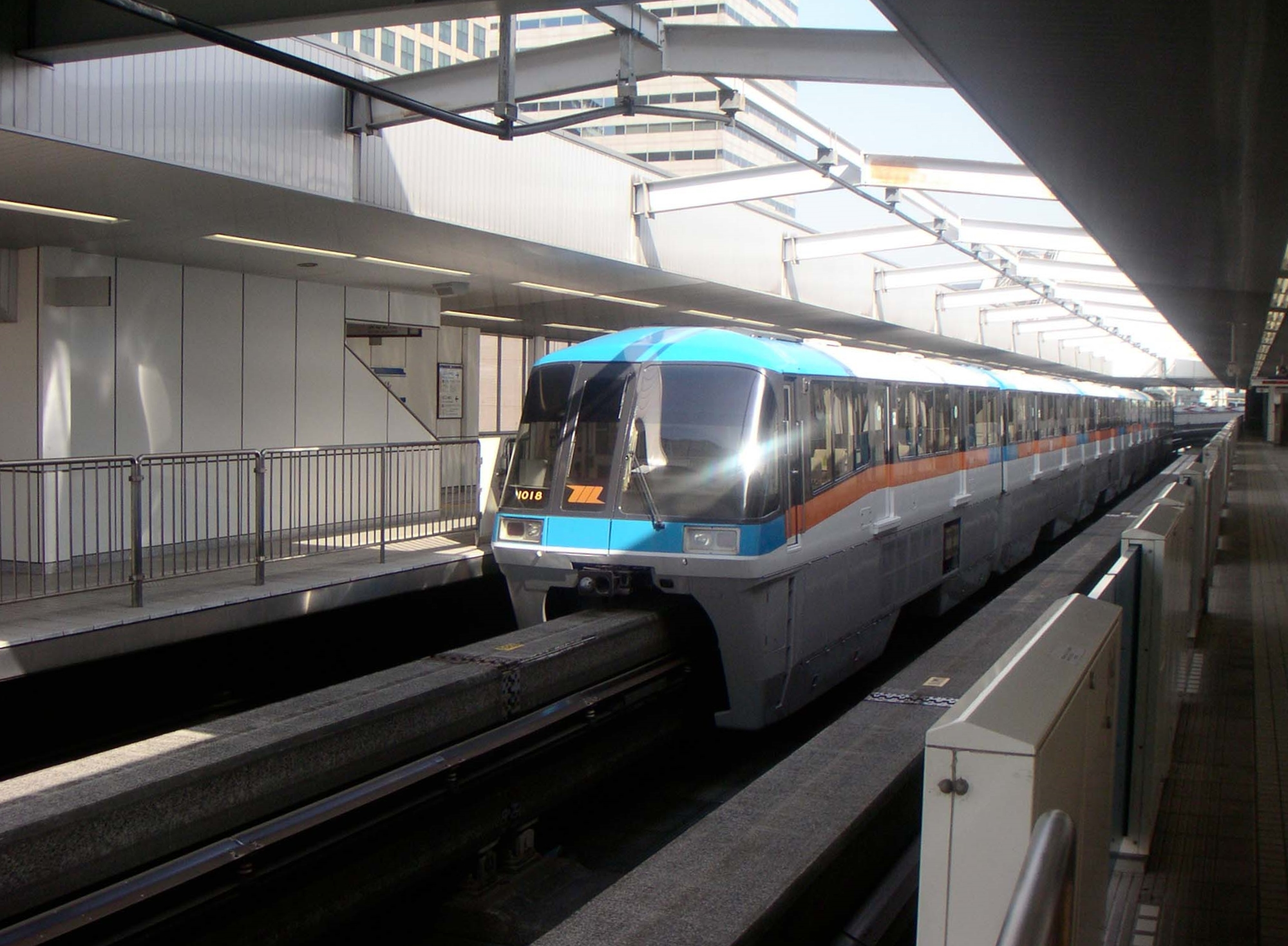 A Tokyo Monorail 1000 series train at Tennozu Isle Station in Tokyo